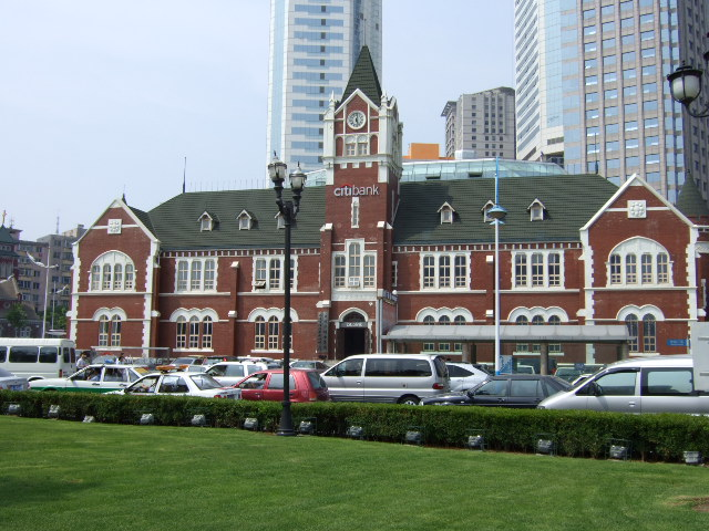 Former Dalian Police Station